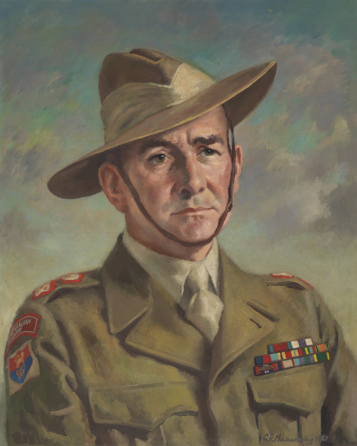 AWM image ART27517. Portrait depicting VX186 Lieutenant Colonel George Radford Warfe, DSO, MC